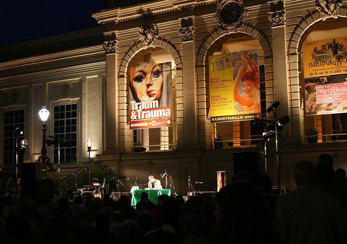 Austrian writer Josef Winkler reading at the literary festival o-töne (MuseumsQuartier, Vienna, Austria